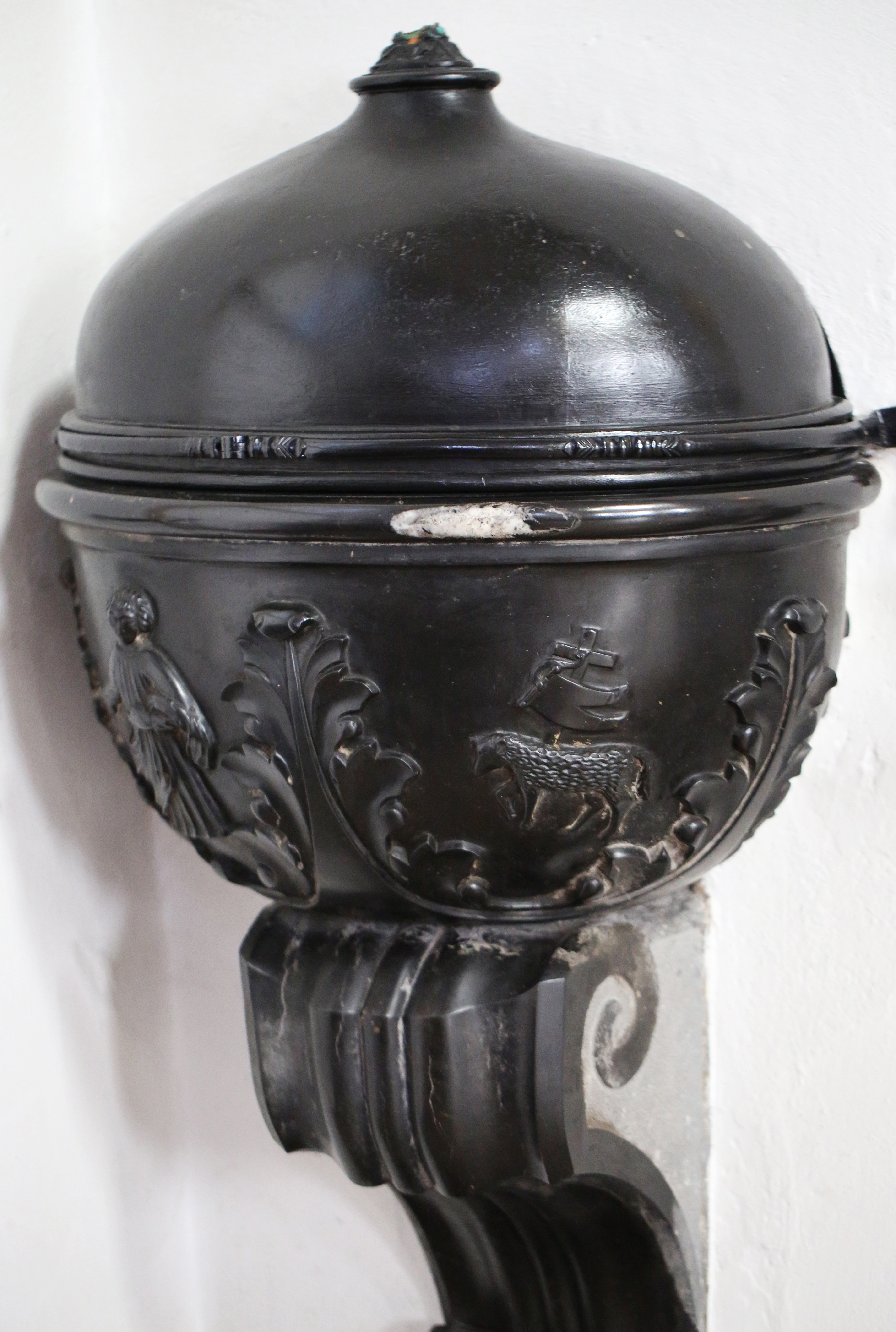 Baptismal font of the former baroque church (demolition 1881) in Bonn, named collegiate church Saint John the Baptist and Peter